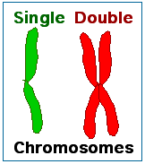 Chromosomes with either one DNA molecule or two. Source: made with ClarisDraw.